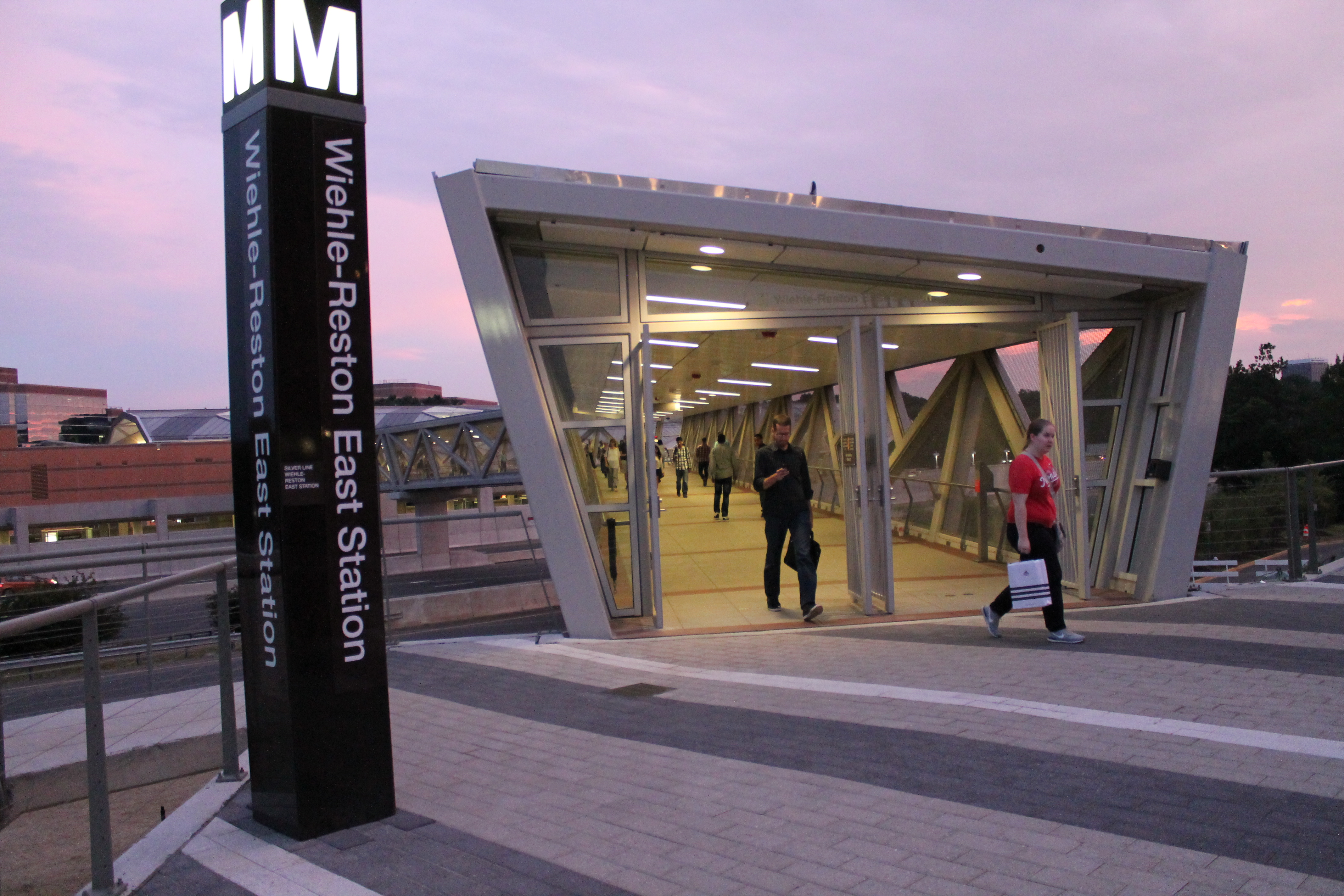 WMATA Wiehle-Reston East SILVER LINE Station at 1862 Wiehle Avenue in Reston VA on Friday night, 1 August 2014 by Elvert Barnes Photography